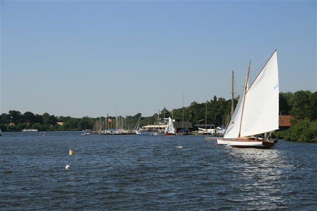 Norfolk Broads Yacht Club, Wroxham Broad The club was established in 1937. On the day of this photo, races were taking place.